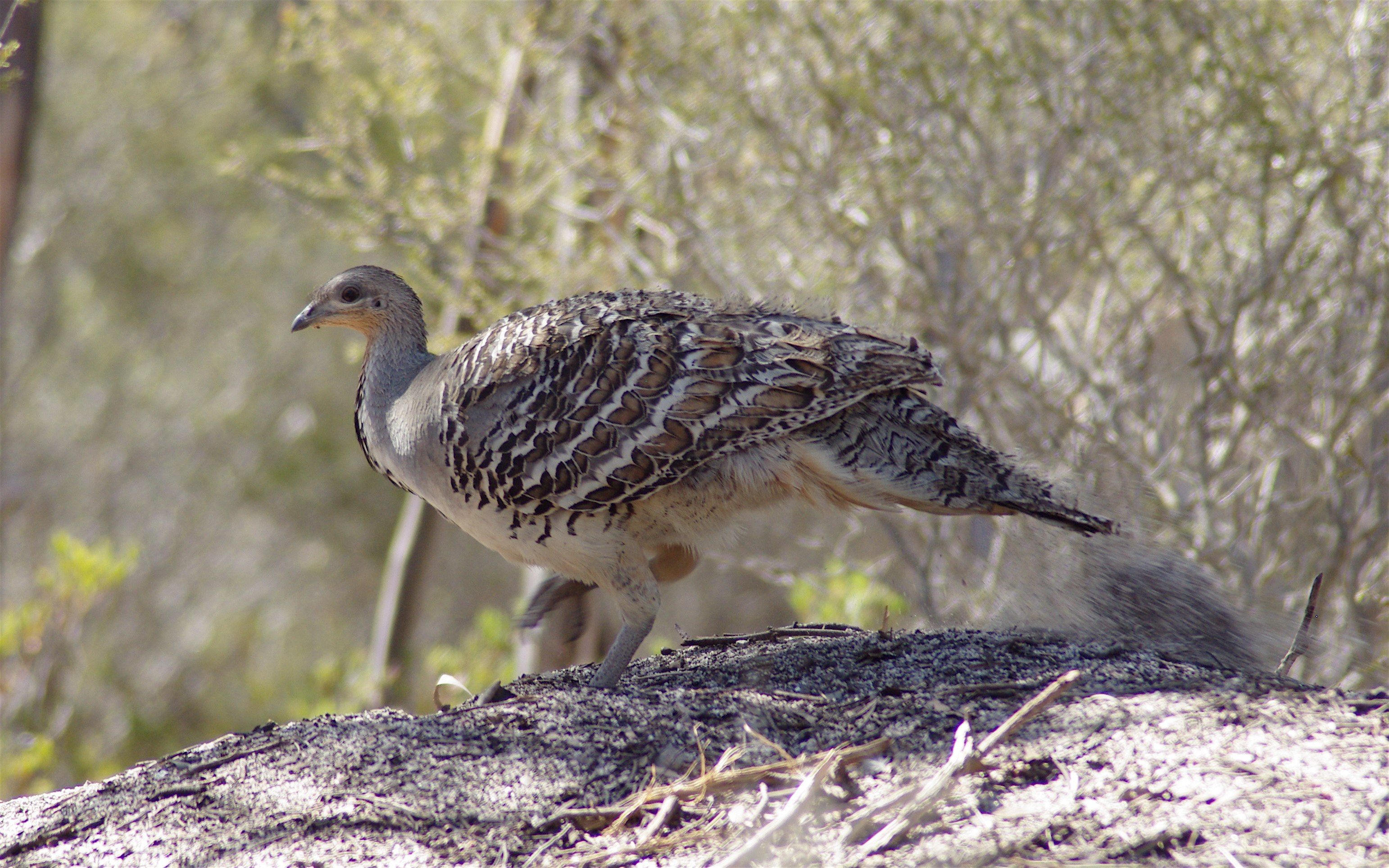 A Malleefowl at Ongerup, Ongerup, Western Australia, Australia.